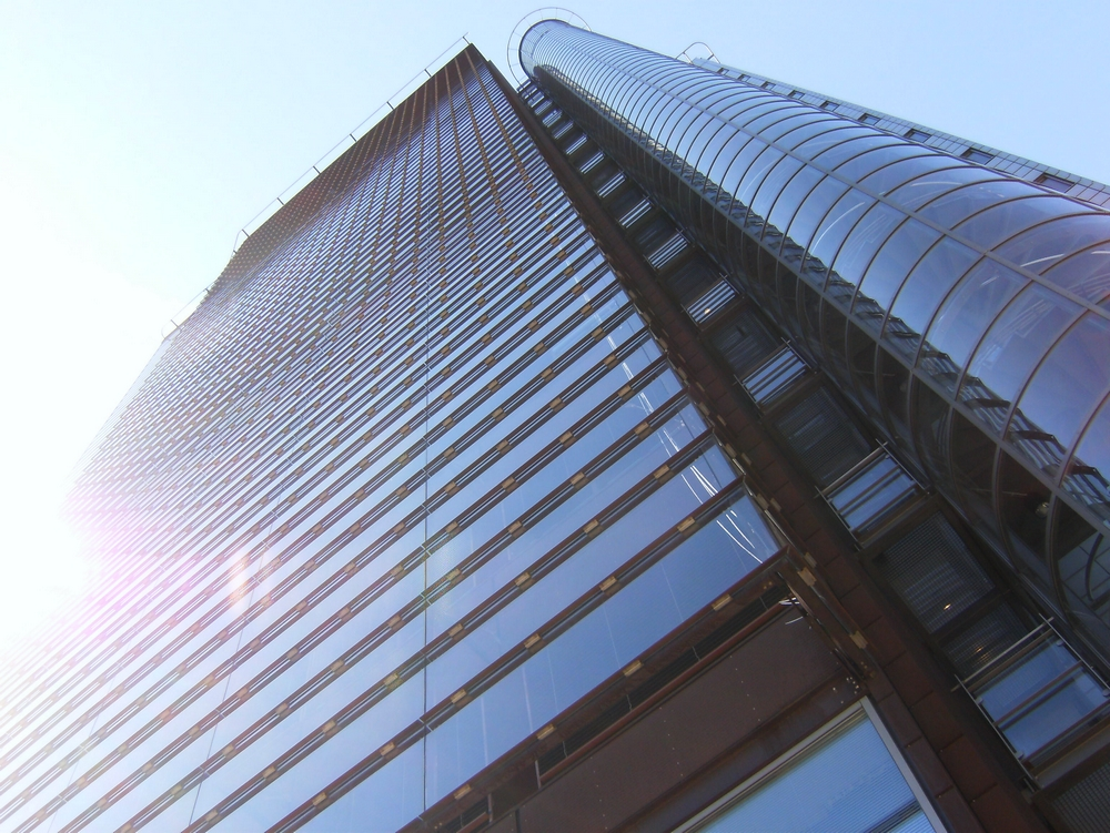 Itämerentorni in Ruoholahti, Helsinki, Finland